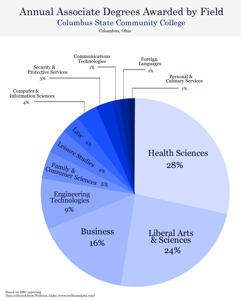 A pie graph depicting the percentage of associate degrees awarded annually by field at Columbus State Community College in Columbus, Ohio.